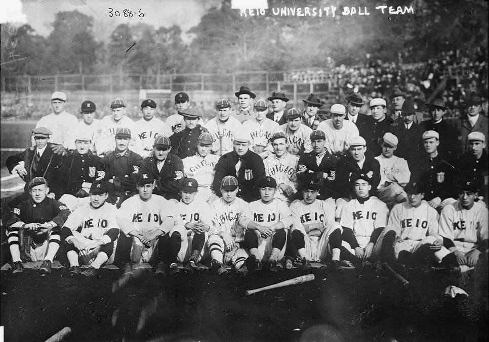 Keio University, Japan & University of Chicago ballplayers (baseball). (original text)